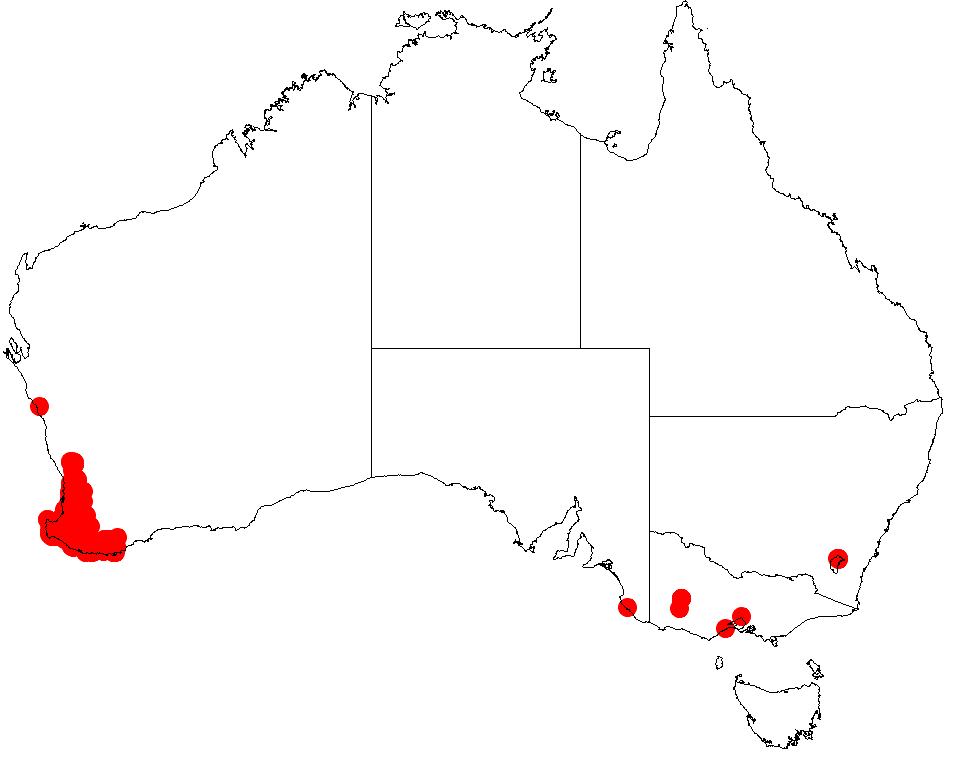 Acacia extensa occurrence data from Australasian Virtual Herbarium downloaded from on December 8 2018